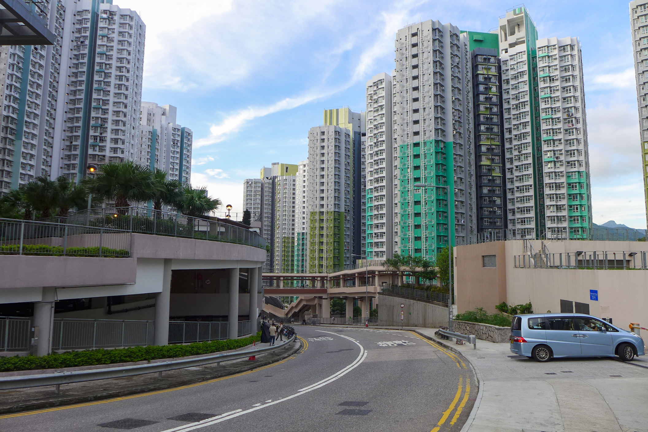 Shui Chuen O Estate Phase 4